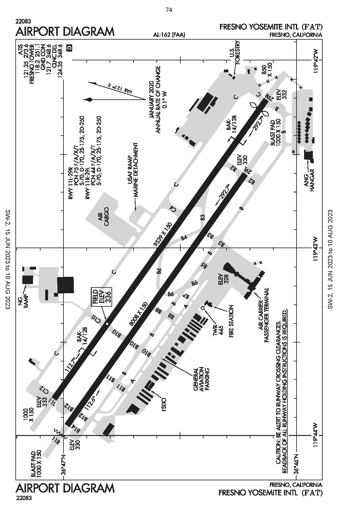 Runway Diagram for KFAT Fresno Yosemite International Airport in Fresno, CA